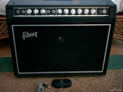 Gibson G80 Amplifier